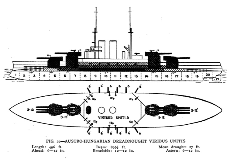 A line drawing of the Austro-Hungarian battleship ‘’SMS Viribus Unitis’’.